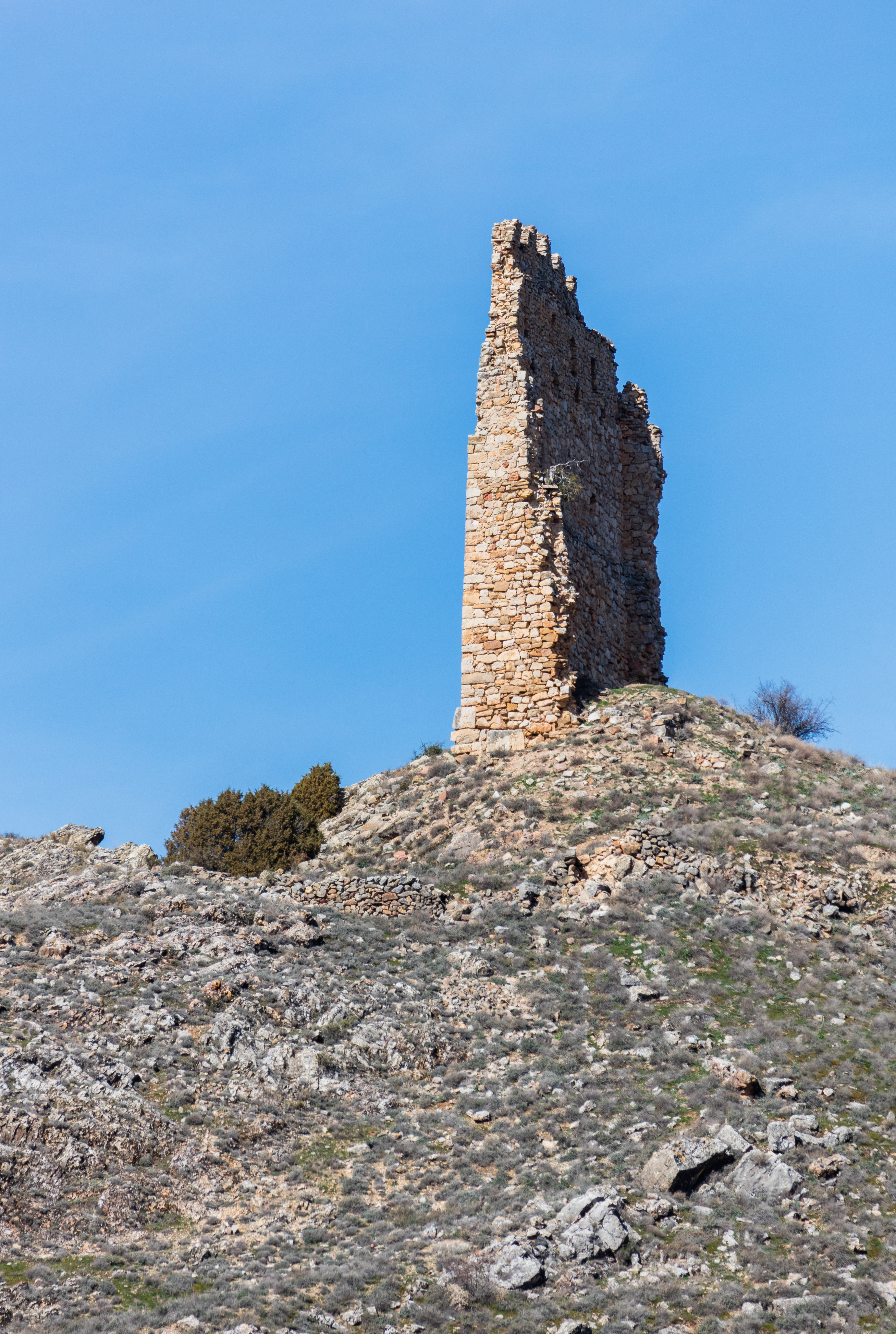 Castle of Cimballa, Zaragoza, Spain